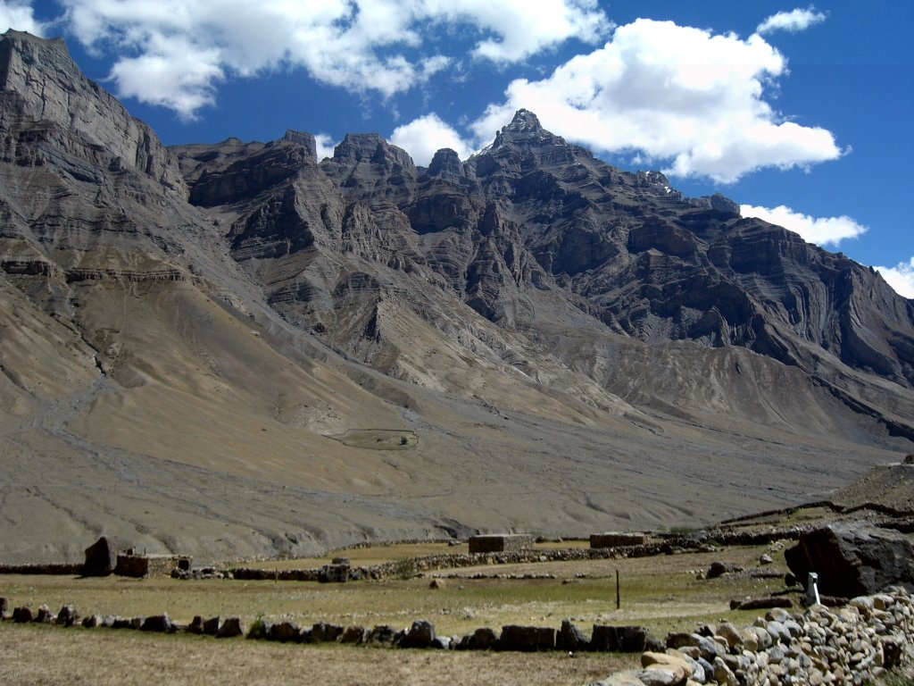 Striking contrast of blue sky, brown peaks and golden barley fields - Spiti at the end of summer